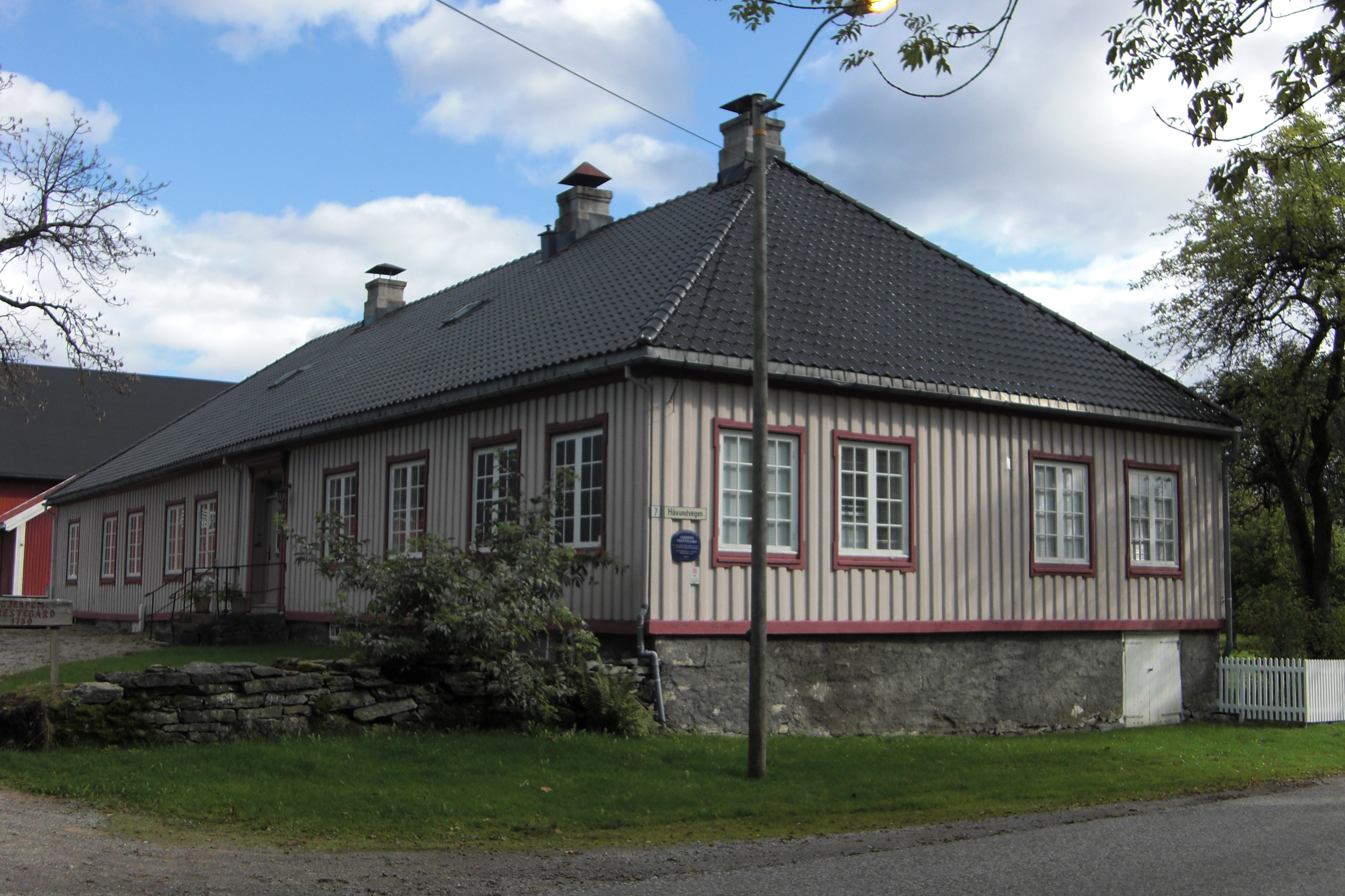 Gjerpen vicarage in Skien, Telemark county, Norway